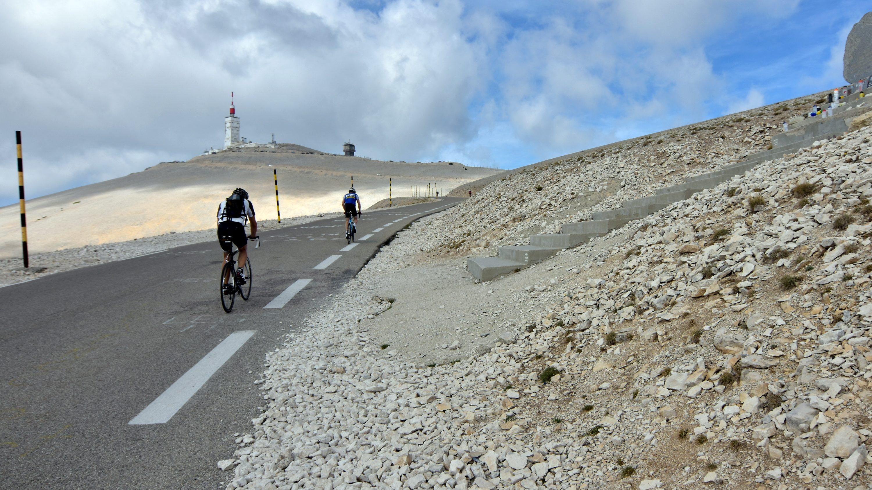 Mont Ventoux, Tom Simpson memorial